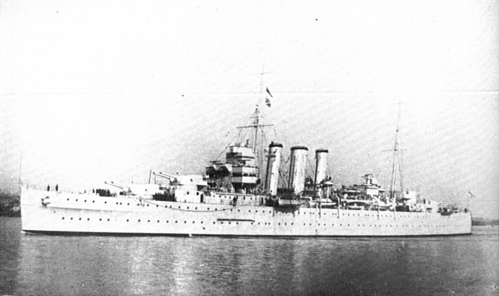 British 10,000 ton Cruisers HMS Sussex Photo: J Abrahams